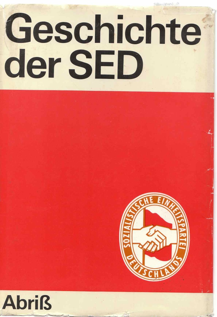 Cover of the Book "Geschichte der SED, Abriß" (History of the SED)